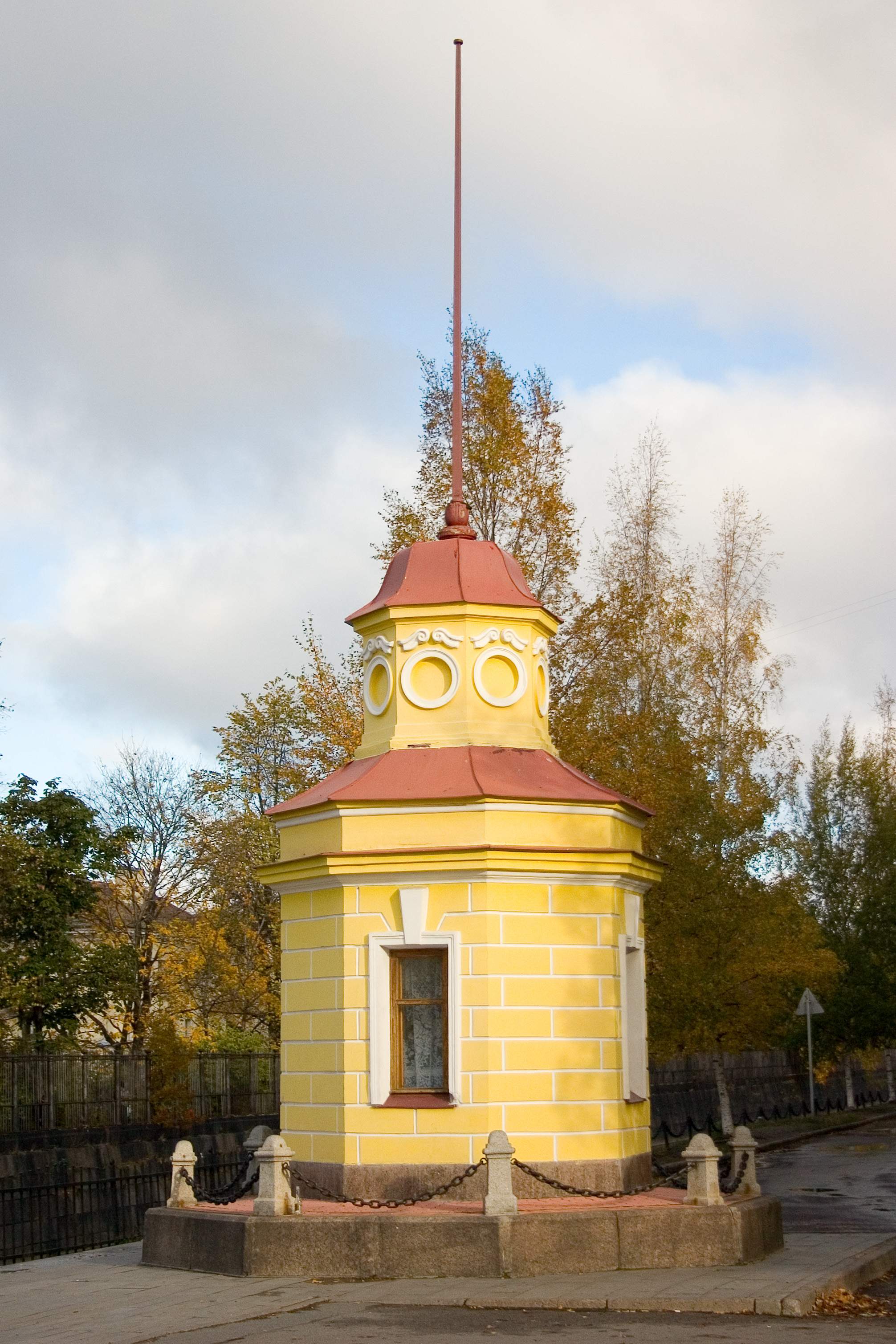 The tide-gauge in Kronstadt, Russia